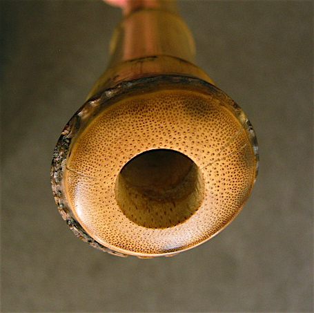 Root end of a Hocchiku style all natural Shakuhachi instrument.